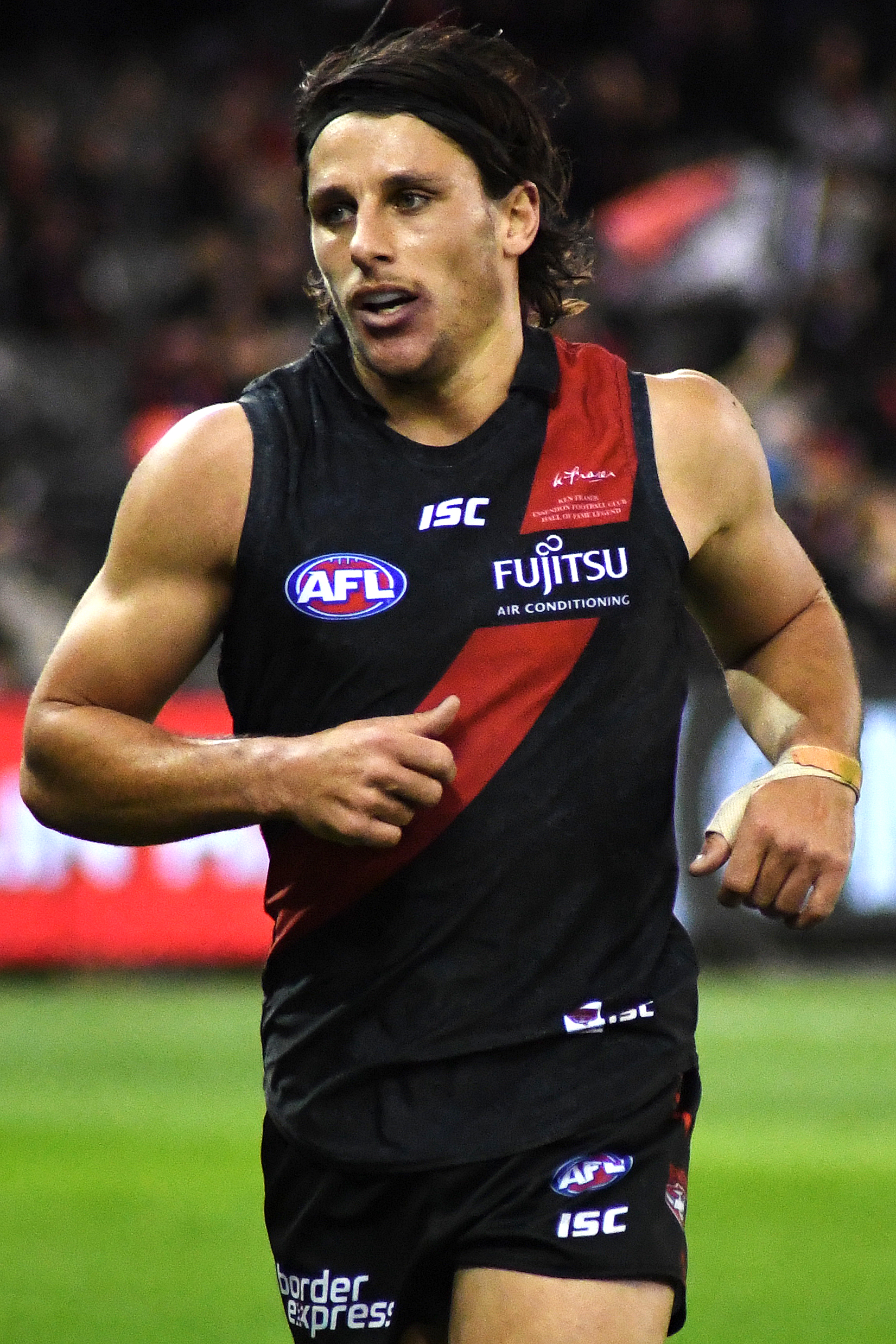 Mark Baguley of Essendon during the 2018 AFL round 21 match between Essendon and St Kilda at Etihad Stadium on Friday, 10 August 2018 in Melbourne, Victoria.